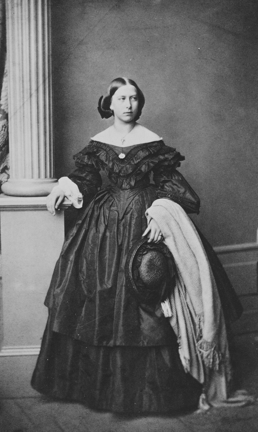 The Grand Duchess of Mecklenburg-Schwerin (1843-65), when Princess Anna of Hesse and by Rhine